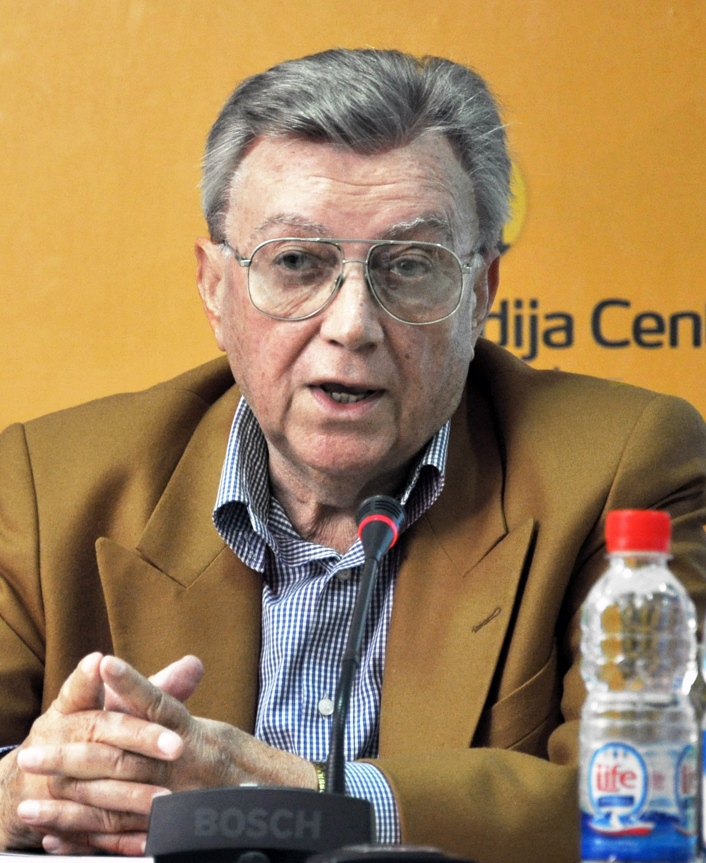 Borisav Jović